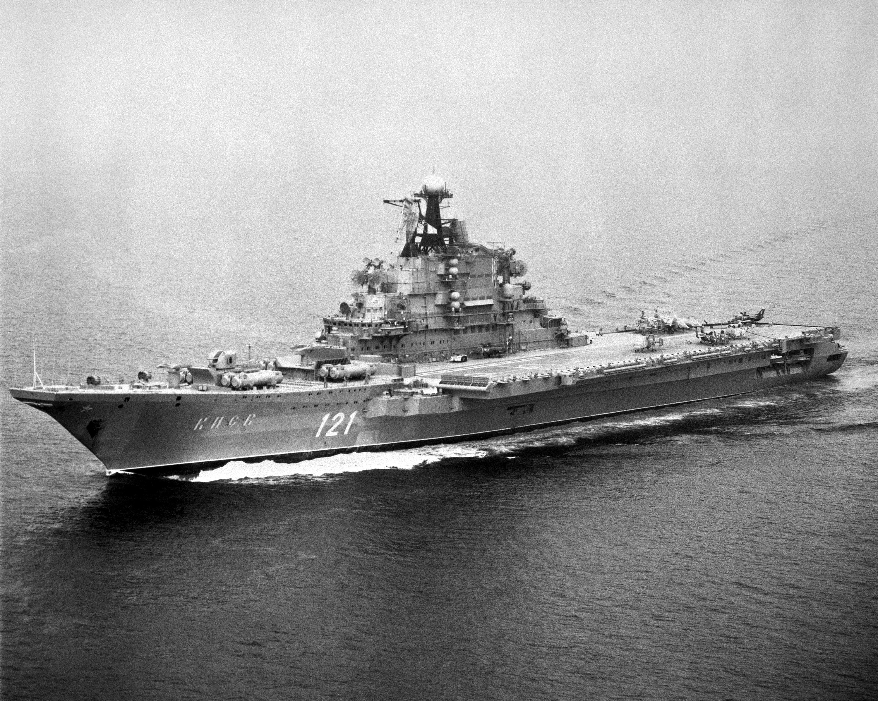 An aerial port bow view of the Soviet aircraft carrier KIEV underway.